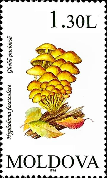 Stamp of Moldova nr. 193: Ghebă pucioasă (Hypholoma fasciculare)